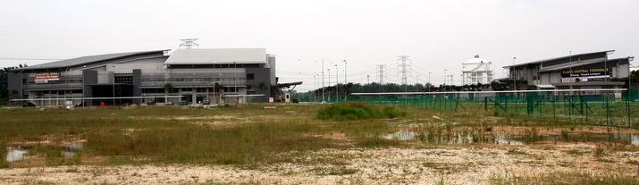 Klang Sentral terminals